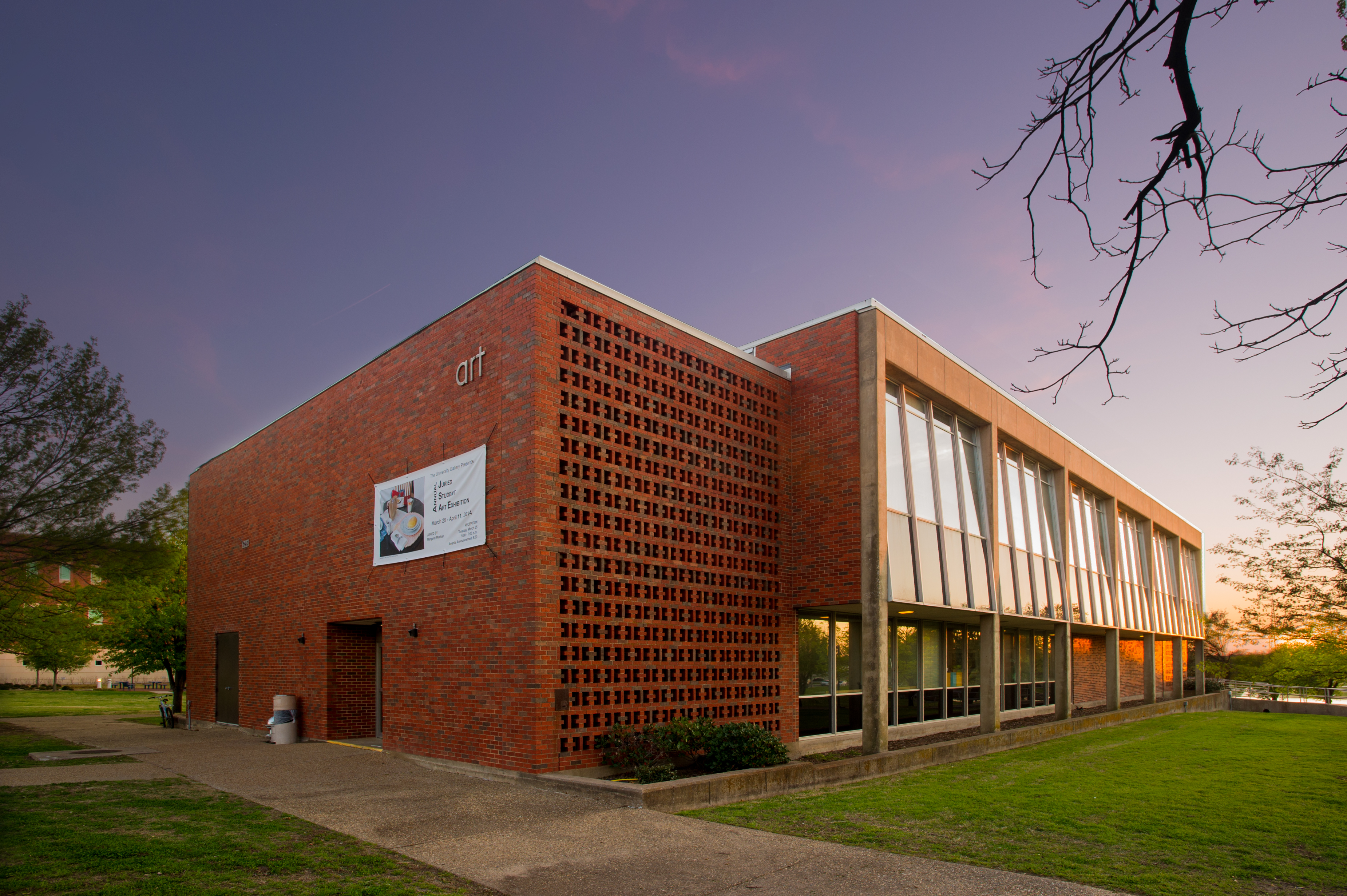 Art Buildling Dusk- Texas A&M University–Commerce Art Building at Dusk